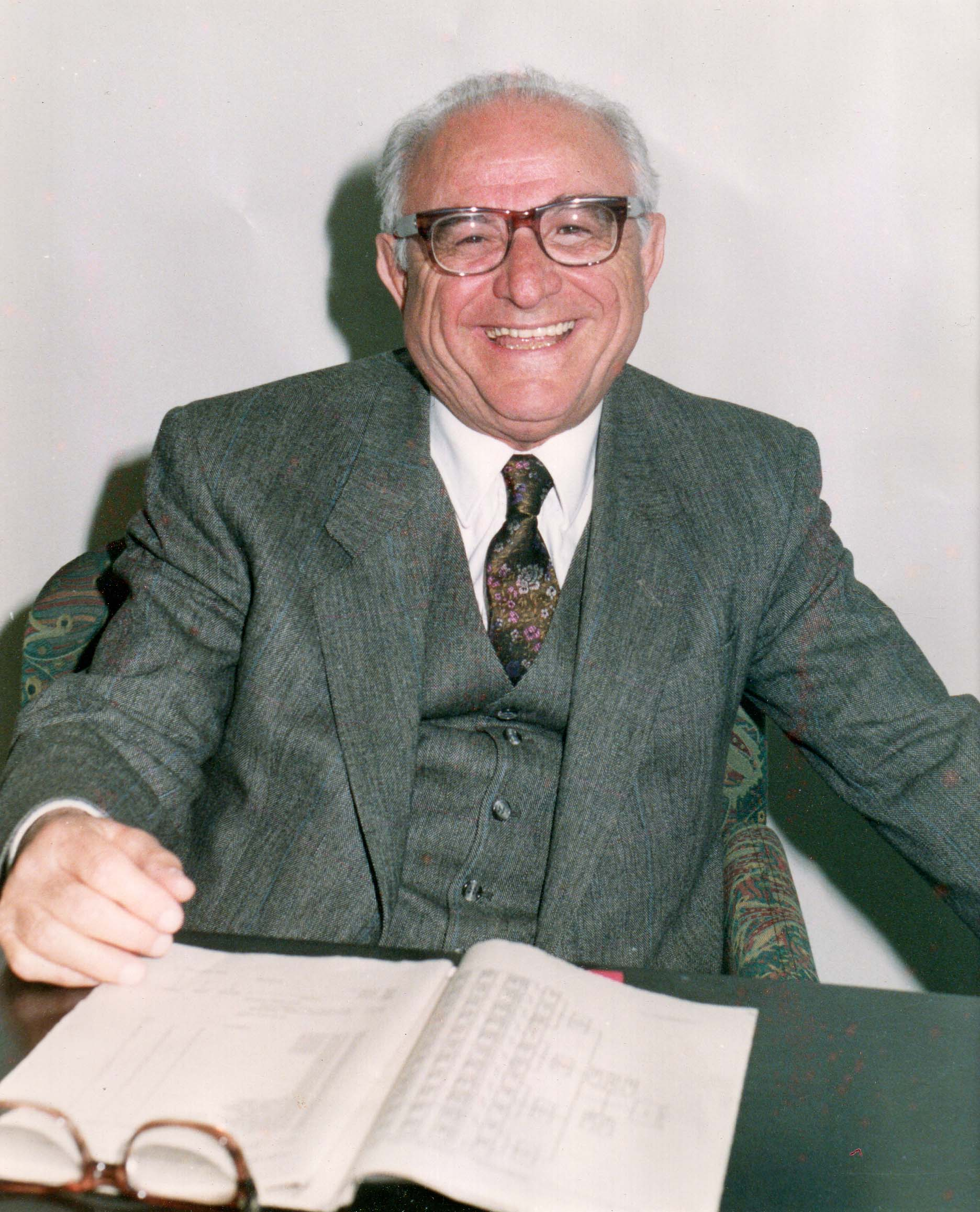 This is a photo of Kemal Kurdas (1920-2011), who initiated the creation of a new campus for Middle East Technical University and a large forest around it on what was barren land. Earlier in his career he was Turkish minister of finance.